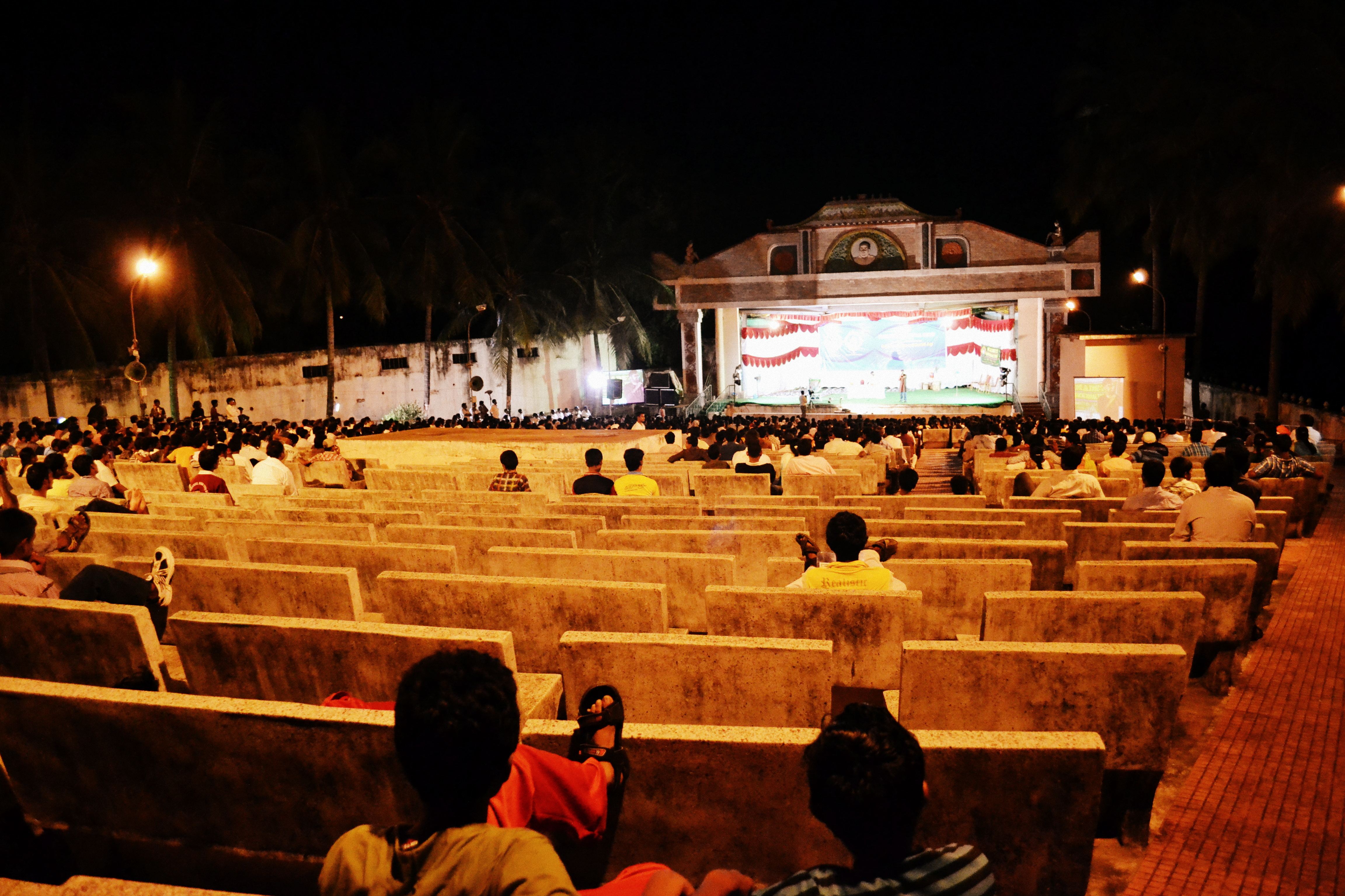 An Annual Independence Day speech on education in which prizes were given to secondary school students.